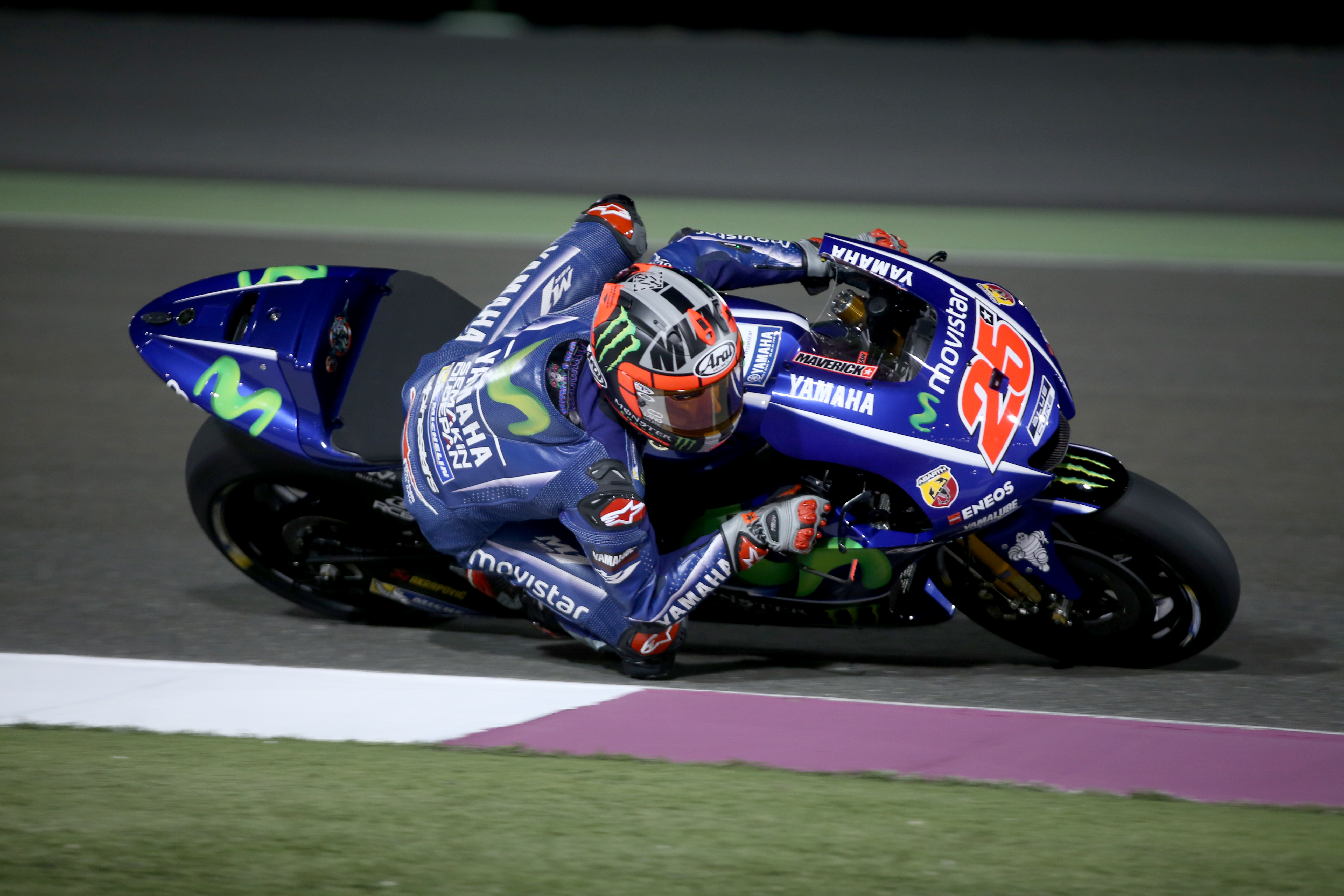 Pic by Mohan